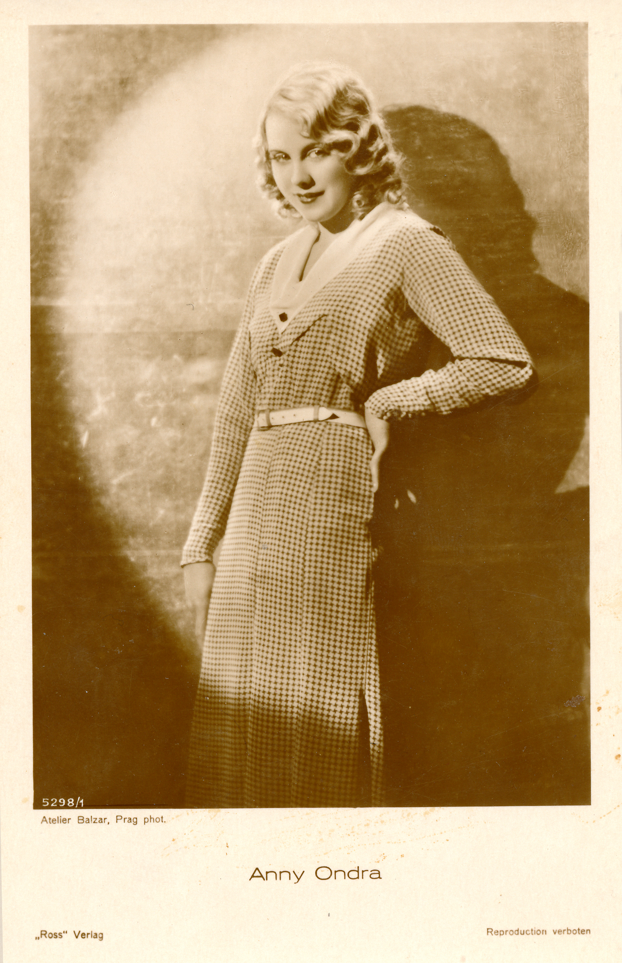 Anny Ondra 5298/1 Balzar Prag Ross-Verlag enhanced